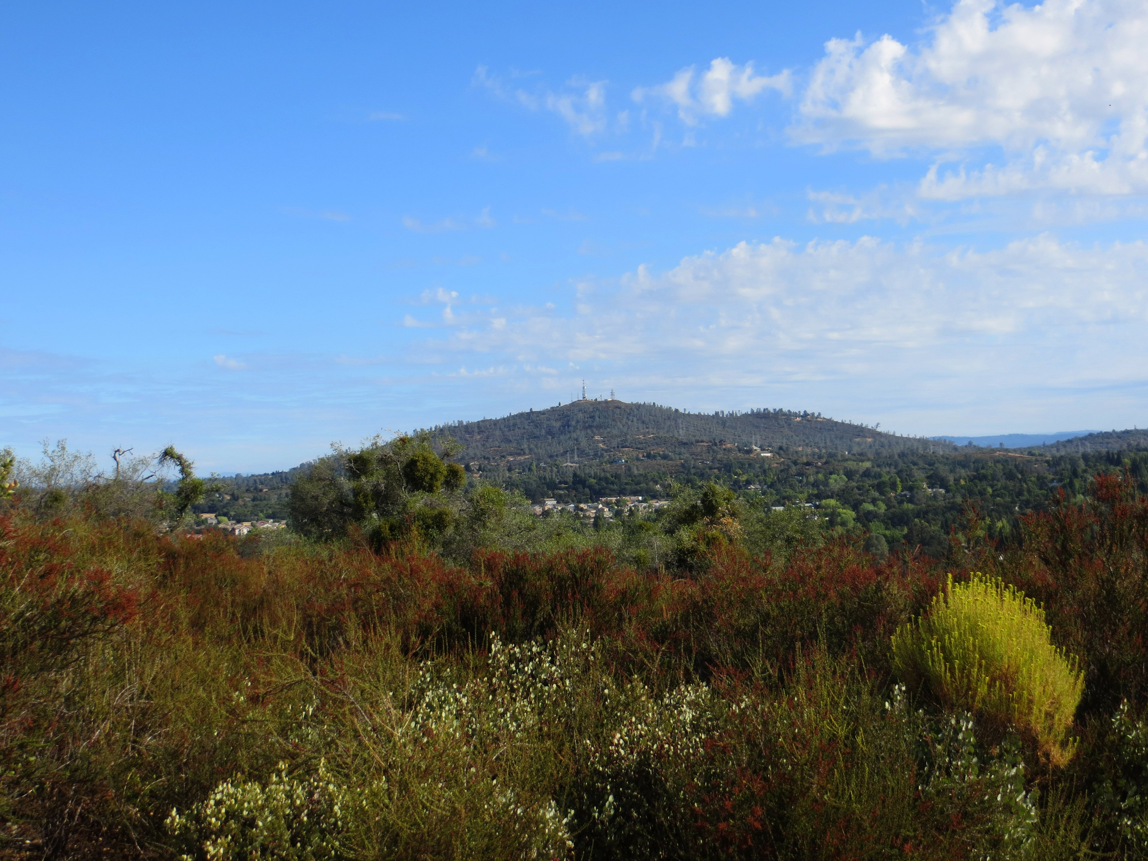 Cameron Park, CA 384